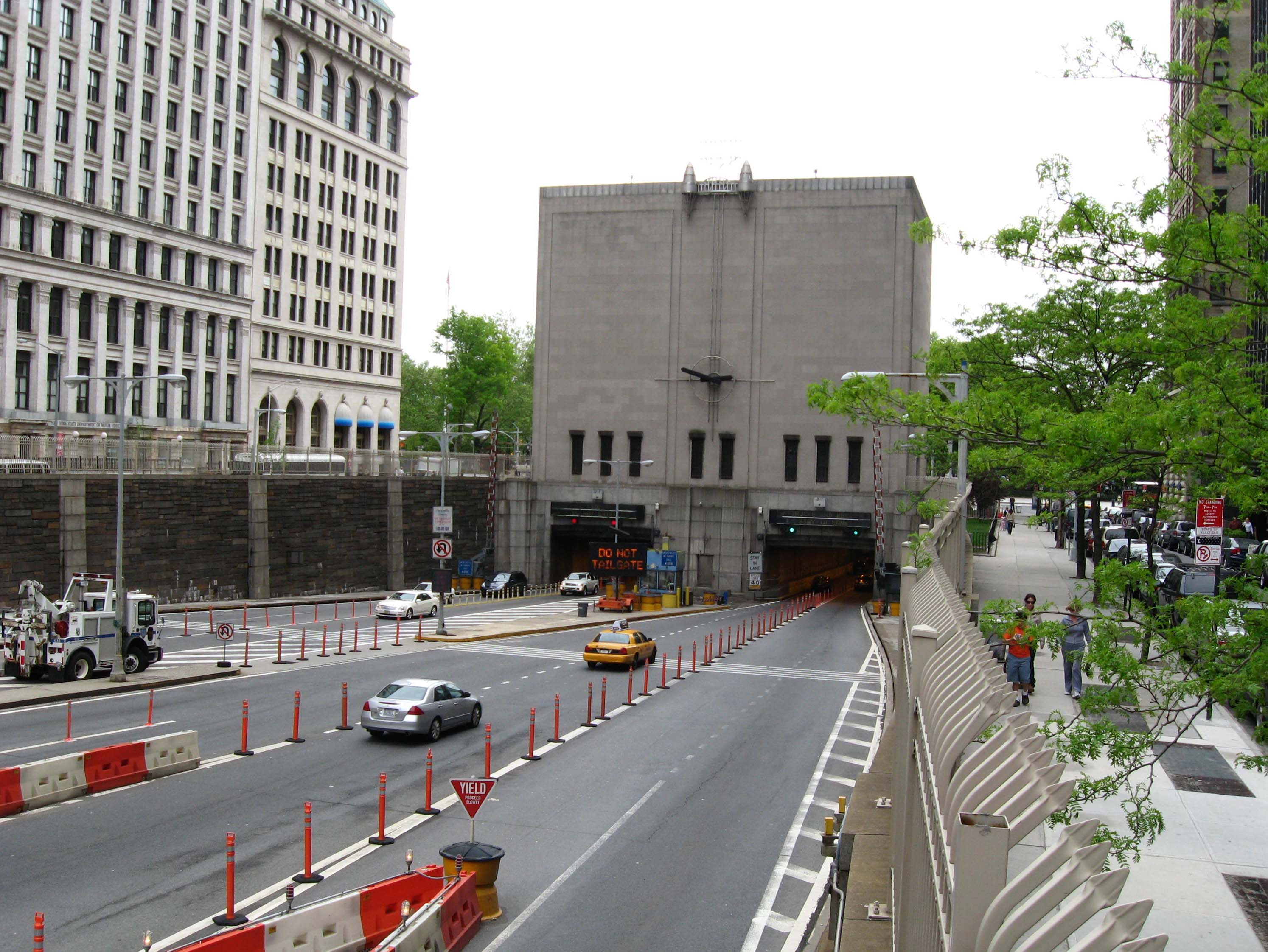 Looking south from pedestrian overpass on a cloudy afternoon at Brooklyn Battery Tunnel Manhattan entrance.